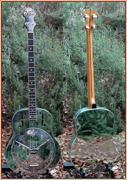 1928 National Style O Plectrum Guitarfrom Lowell Levinger's collection